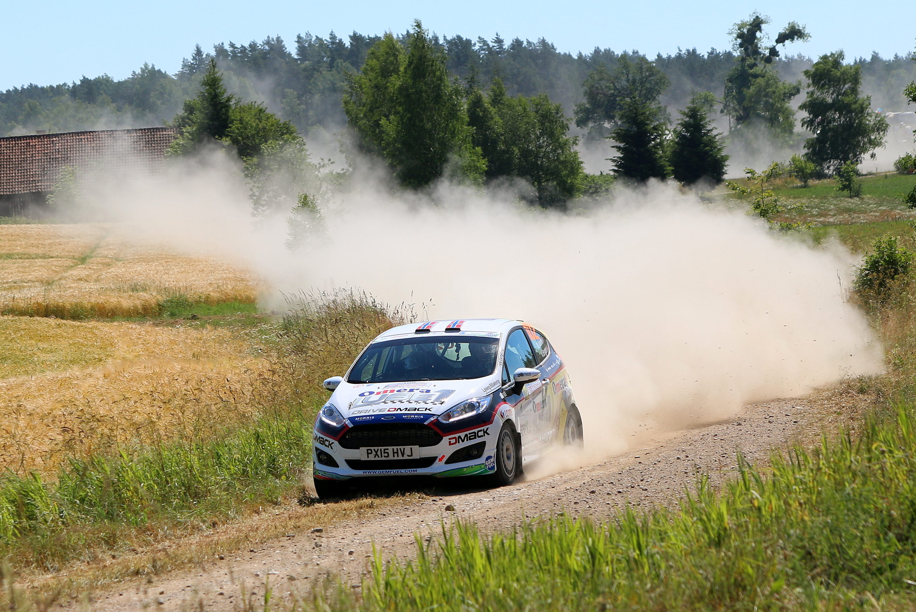 Marius Aasen, OS 10 Mazury, 72nd LOTOS Rally Poland